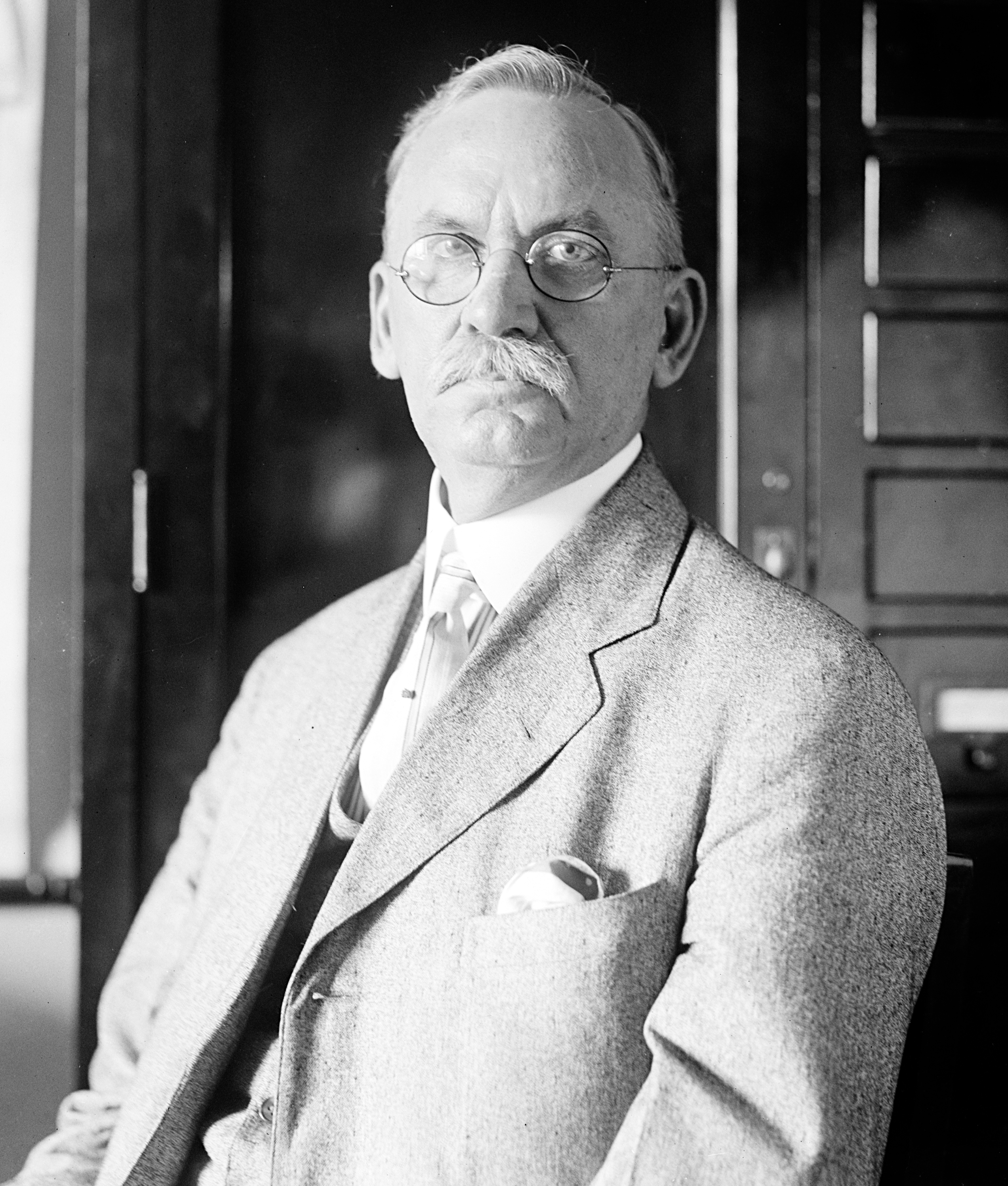 Nathan Leroy Strong, US Representative from Pennsylvania